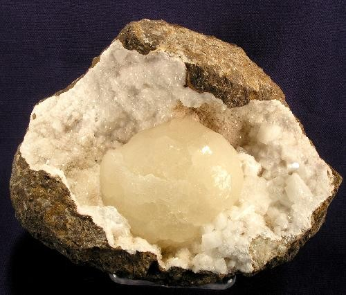 Stellerite Locality: Nasik District, Maharashtra, India (Locality at ) Size: 11.7 x 8.7 x 8.3 cm. A tremendous large Stellerite in a well-protected pocket. This lovely white Stellerite is an amazing 5 cm across, and the luster is excellent. No pic can do this justice. Ex. Charlie Key collection.